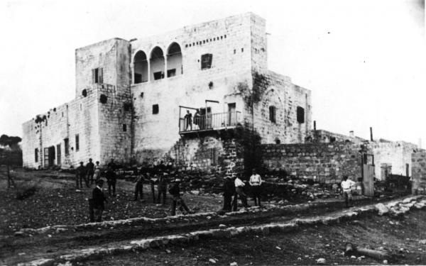 Members of the Zionist Betar movement near Shuni fortress (an Ottoman building standing between Binyamina and Zichron Yaakov